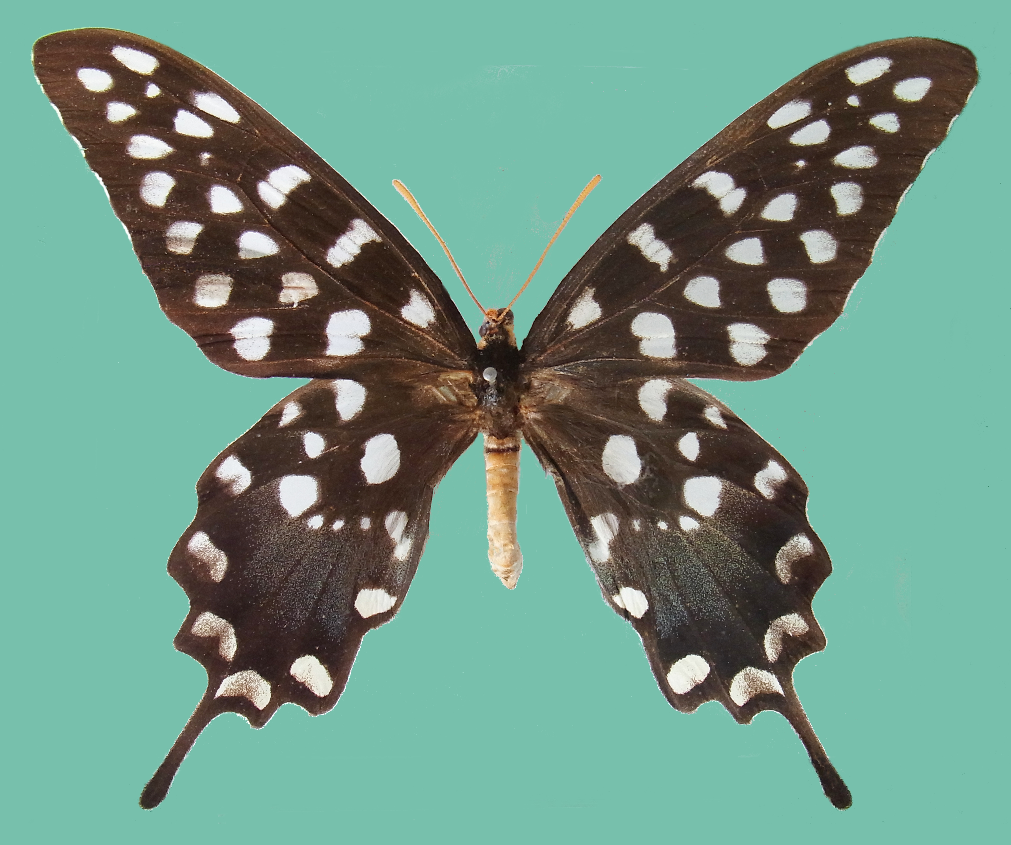 Pharmacophagus antenor from collection